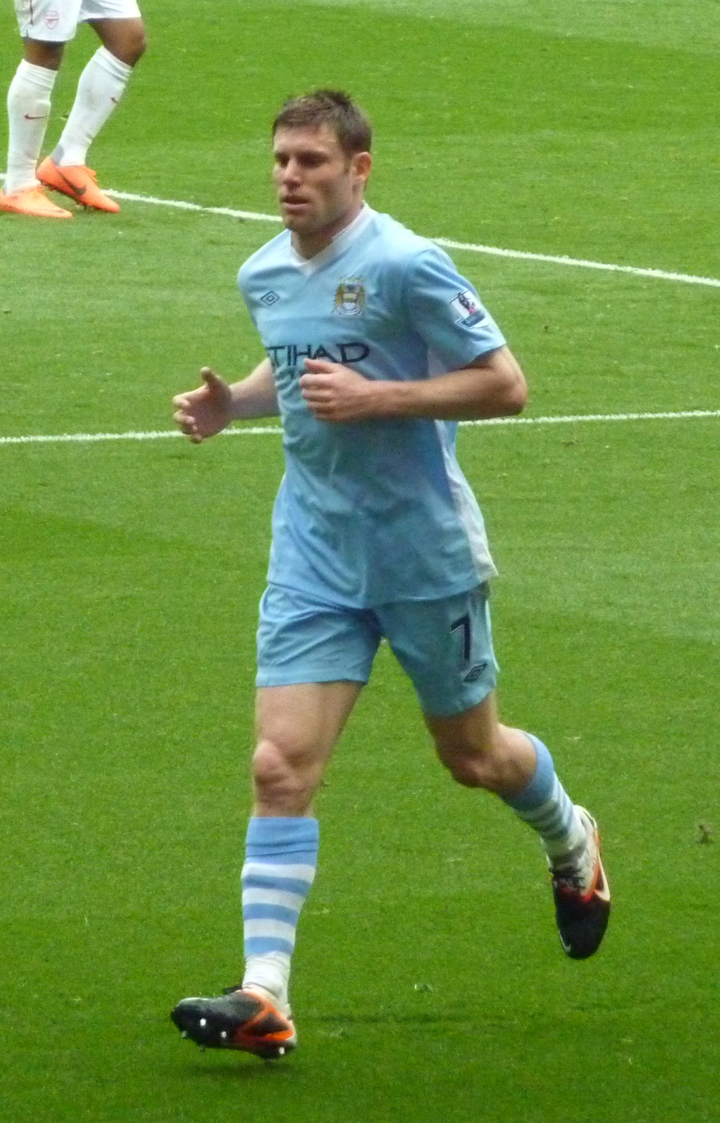 James Milner playing for Manchester City against Arsenal in April 2012